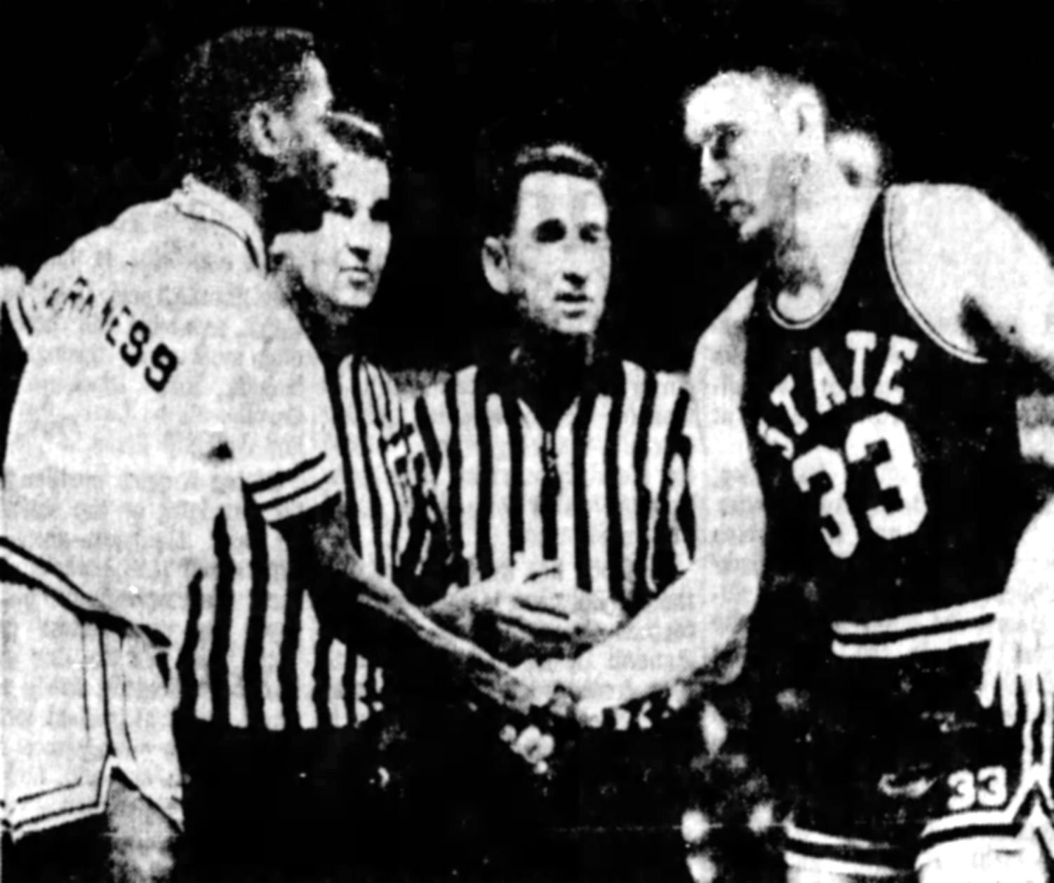 A scan from The Clarion-Ledger / Jackson Daily News from the Sunday, March 17, 1963 issue